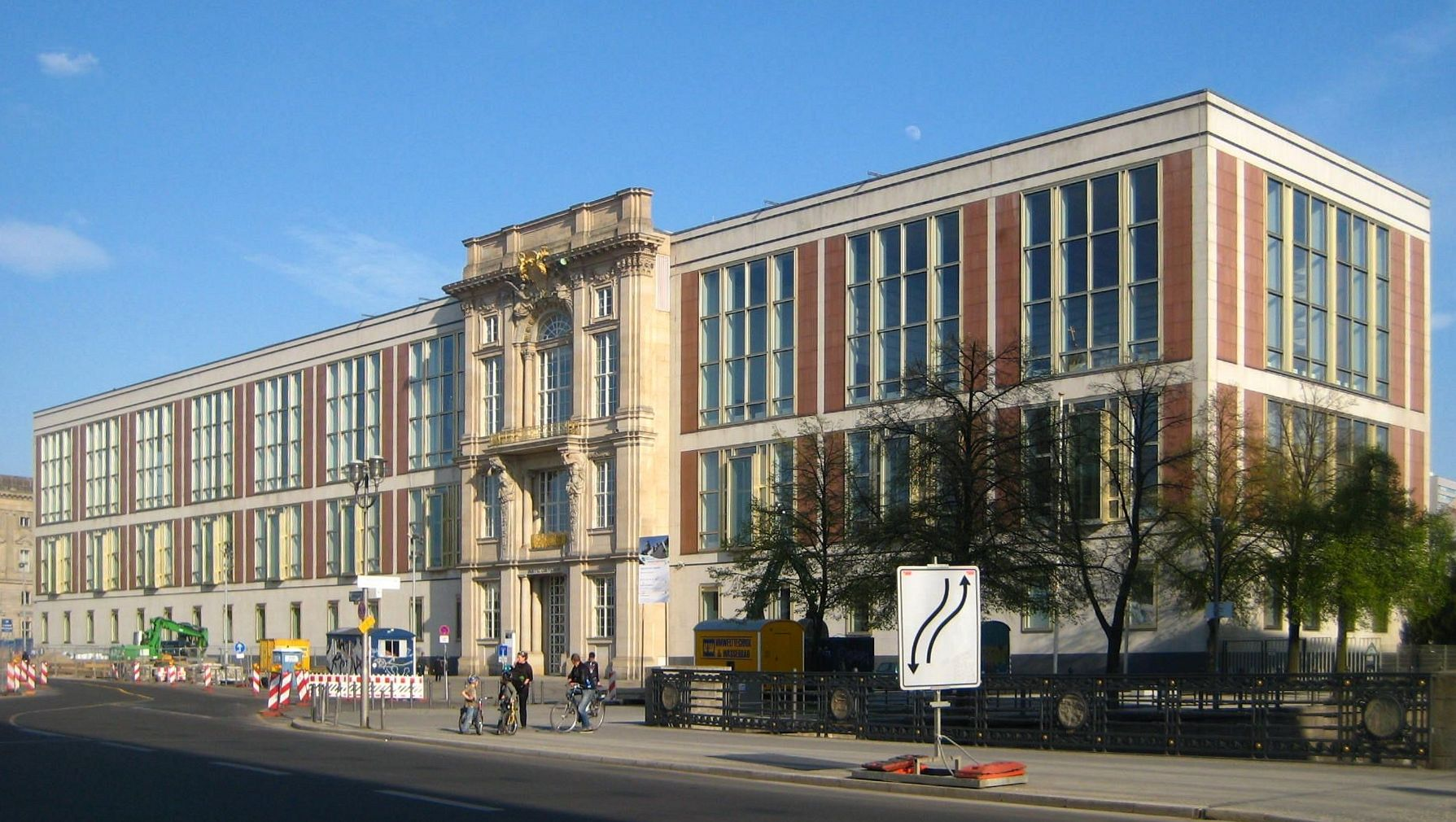 The GDR State Council Building on Schlossplatz in Berlin with the portal IV of the former Berlin City Palace.